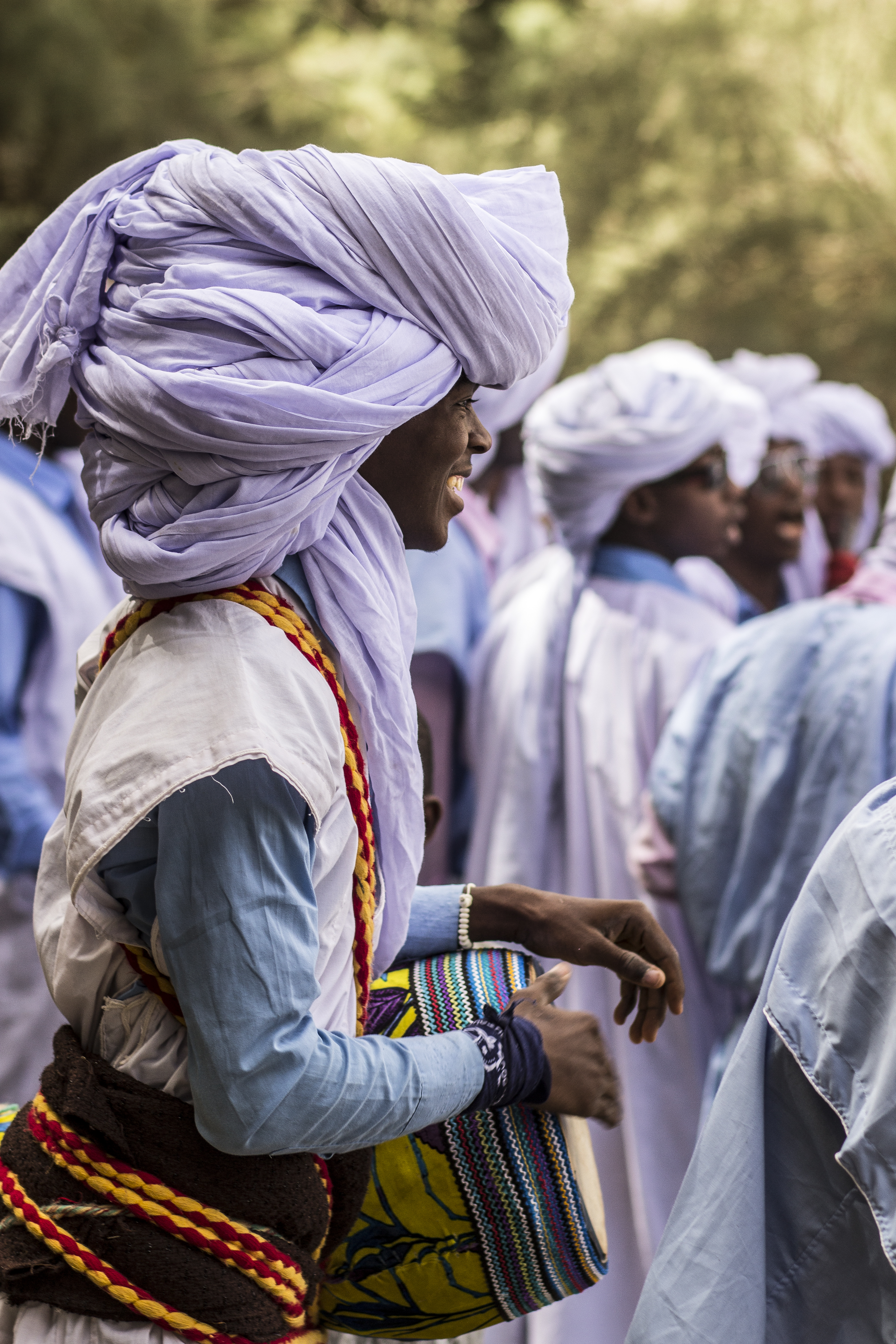 African music player at a festival in tazrouk, tamanrasser - Algeria This is an image of "African people at work" from Algeria